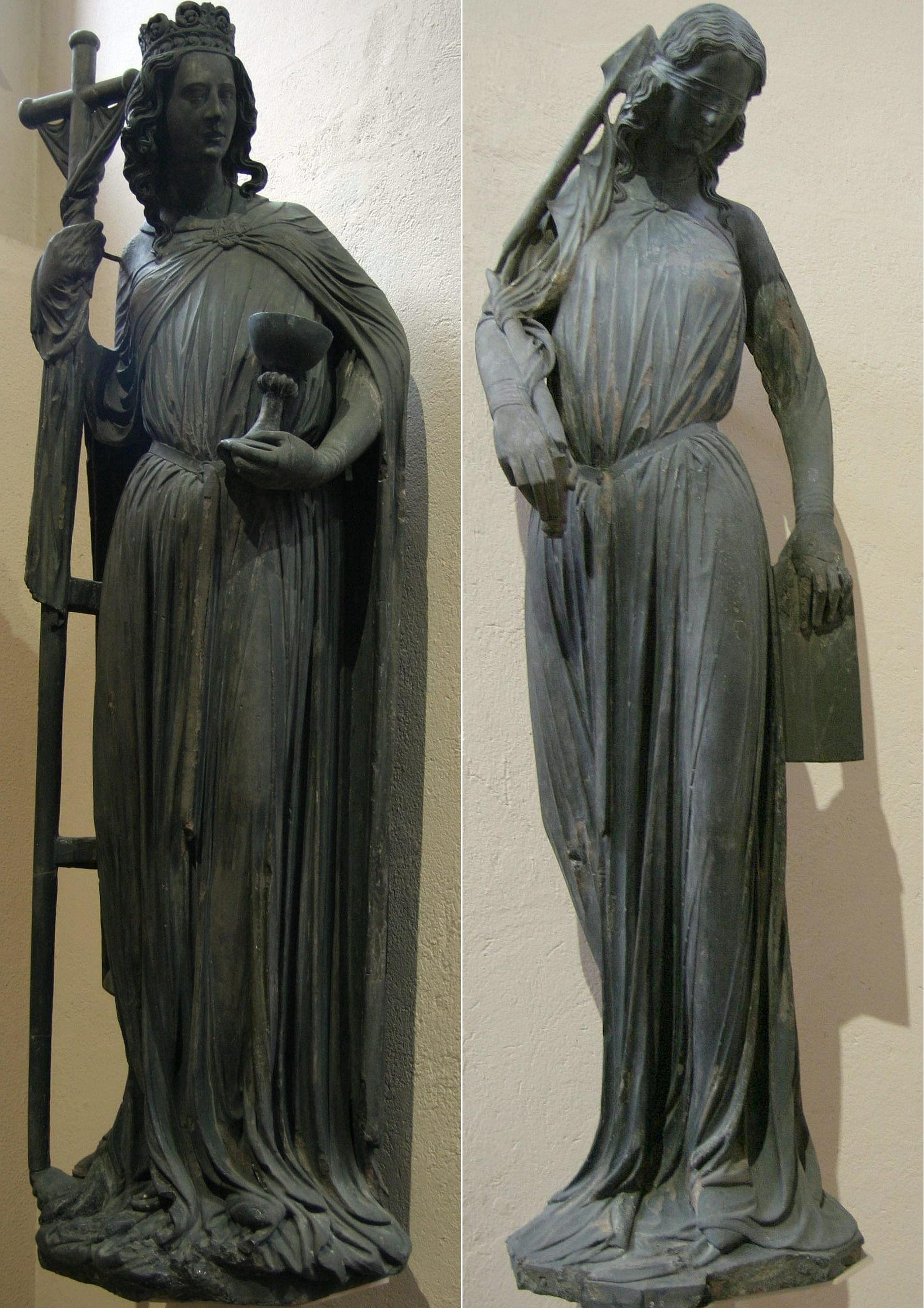 Gothic Statues "Ecclessia" and "Synagogue" from Strasbourg Cathedral, original gothic sculptures in Musée de l'Oeuvre Notre-Dame